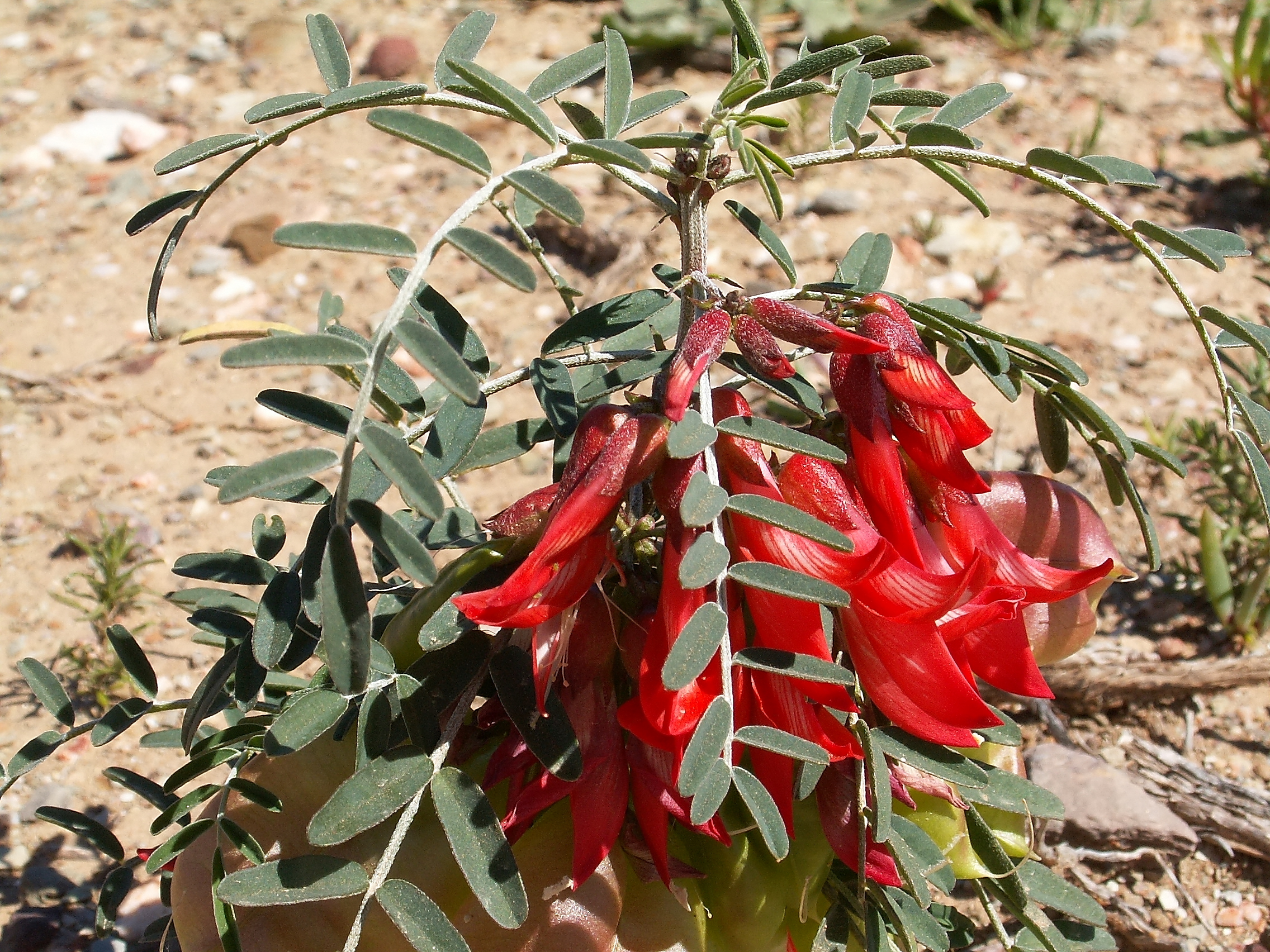 Lessertia frutescens (L.) Goldblatt & J. C. Manning, (Syn.: Sutherlandia frutescens)